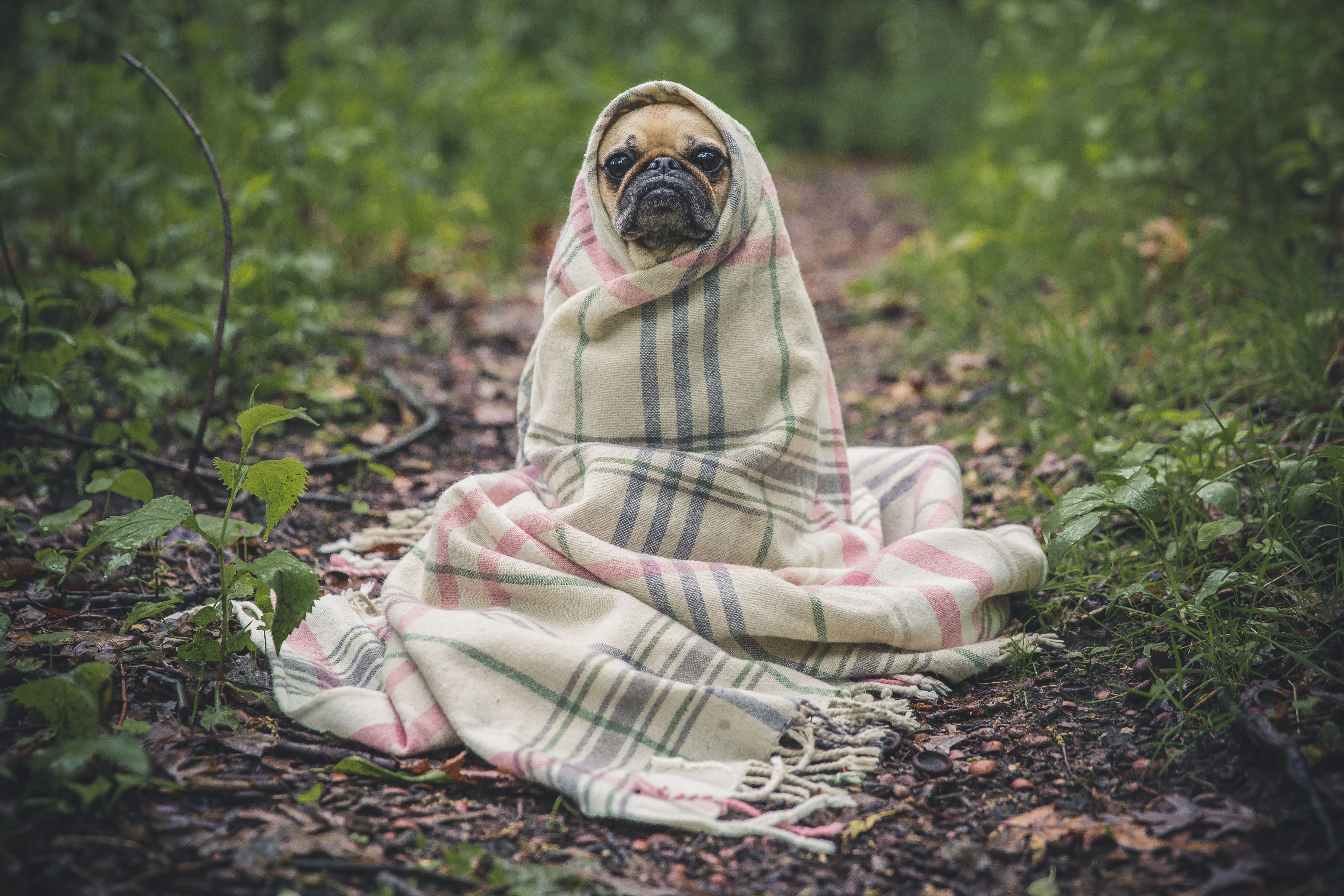 Matthew Henry 2015-06-01